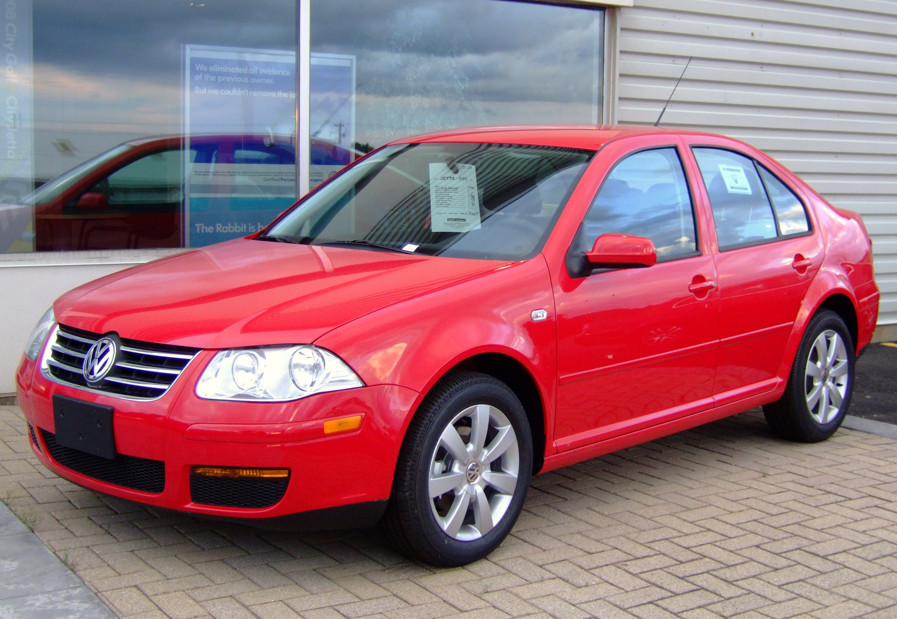 A Canadian specification 2008 Volkswagen City Jetta